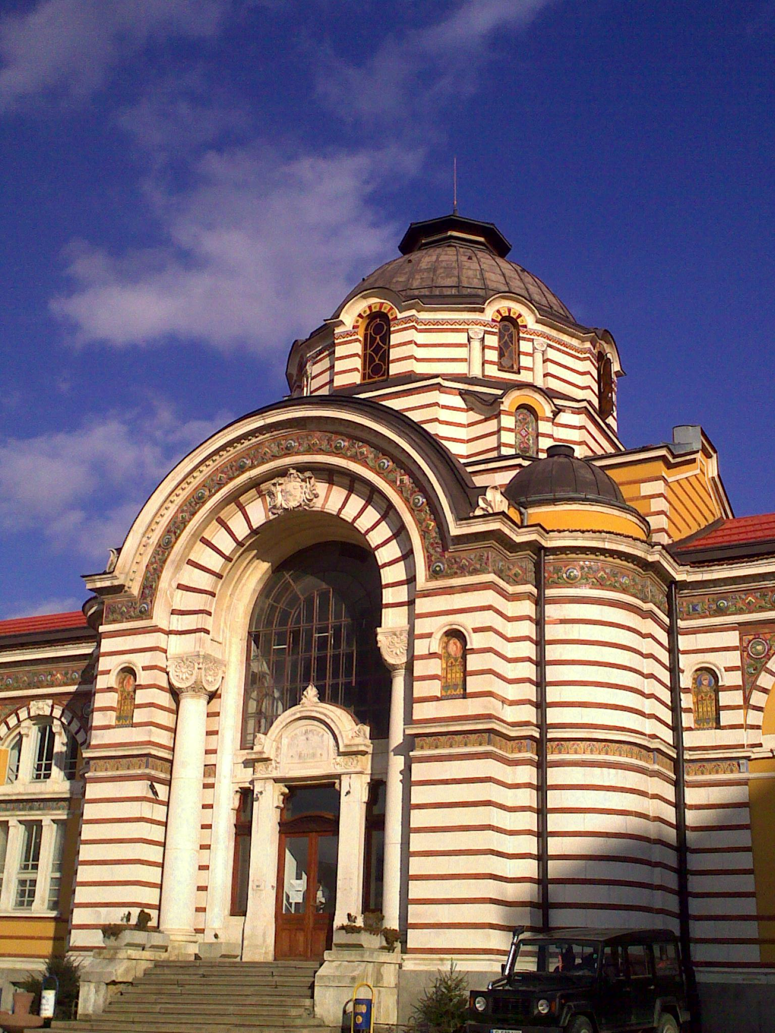 Sofia: Sofia Public Mineral Baths